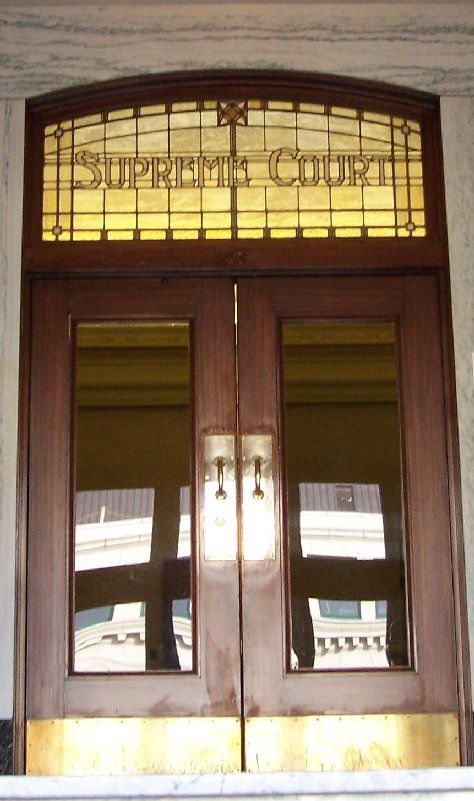 Oregon Supreme Court Building courtroom doors